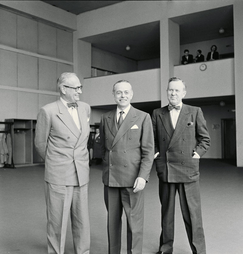 From left to right Mr. Lange, Gaetano Martino and Lester B. Pearson, dubbed the "Three Wise Men", constituting the "Committee of Three".